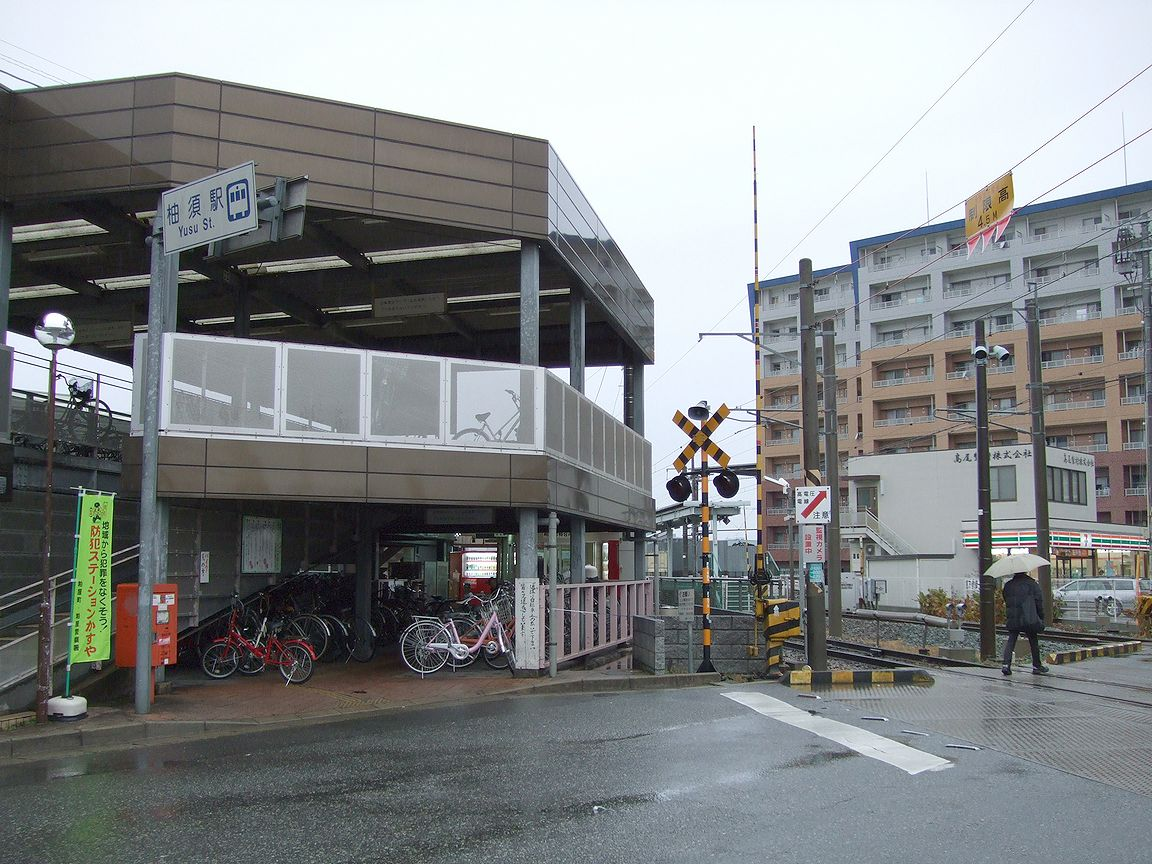 Yusu Station, Sasaguri Line, Kyushu Railway Company.